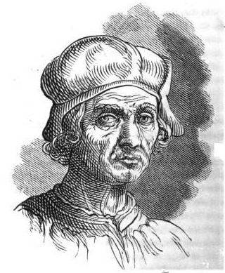 Portrait of the florentine architect Baccio D'Agnolo